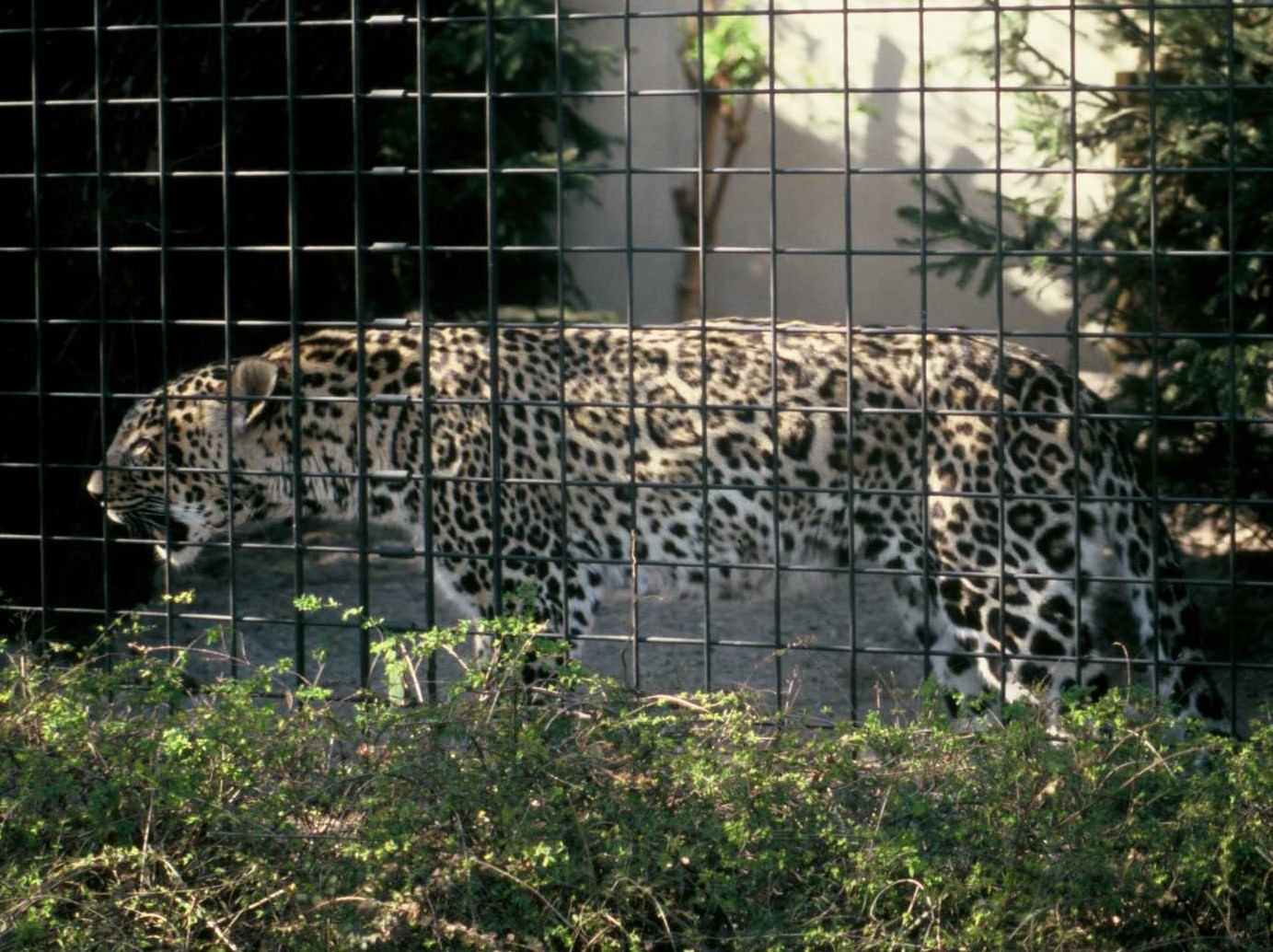 Male Persian leopard (Panthera pardus saxicolor) with untypical coat pattern, Zoo Stuttgart (Wilhelma)